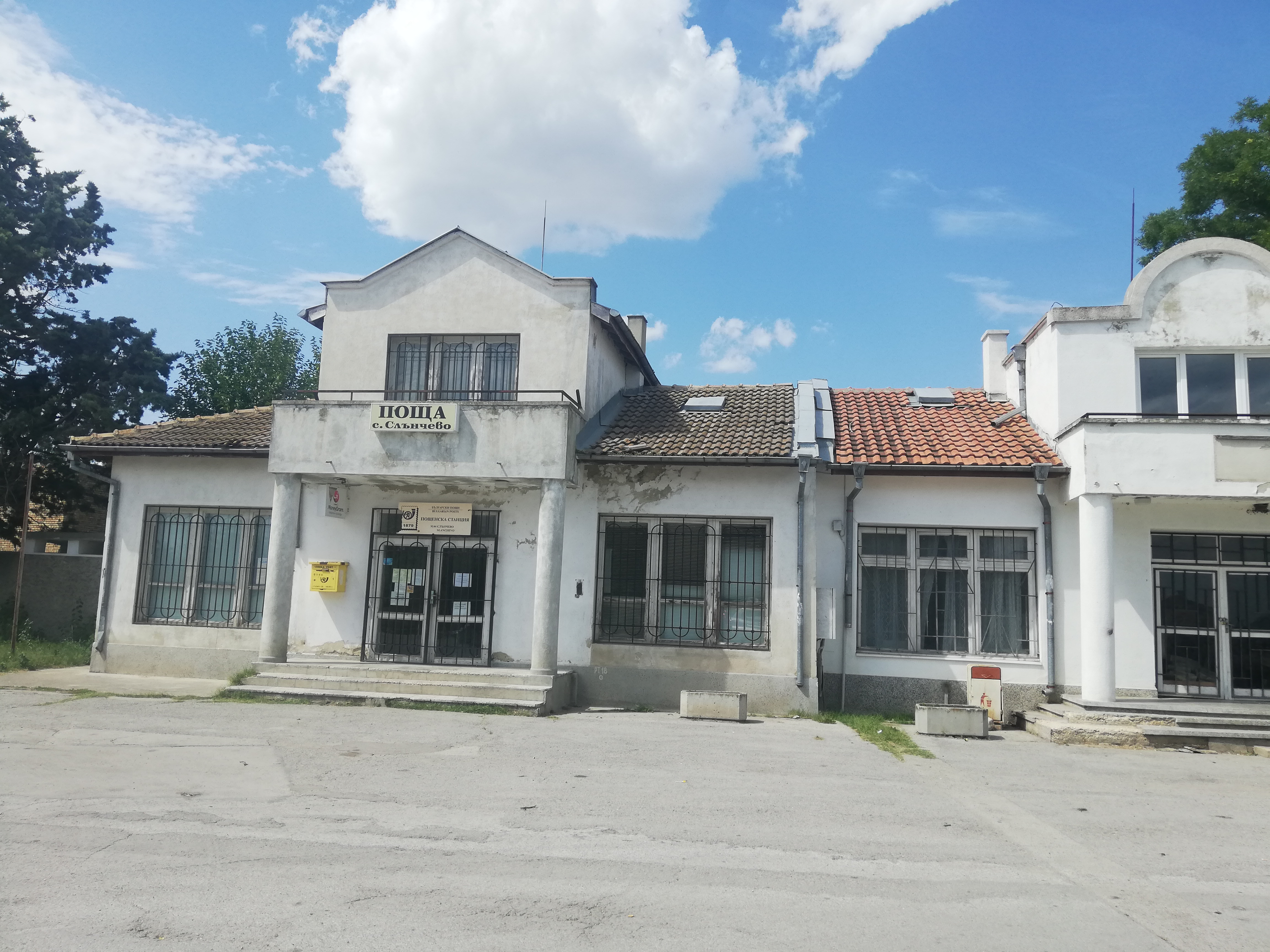 Post office in Slanchevo, Varna Province, Bulgaria